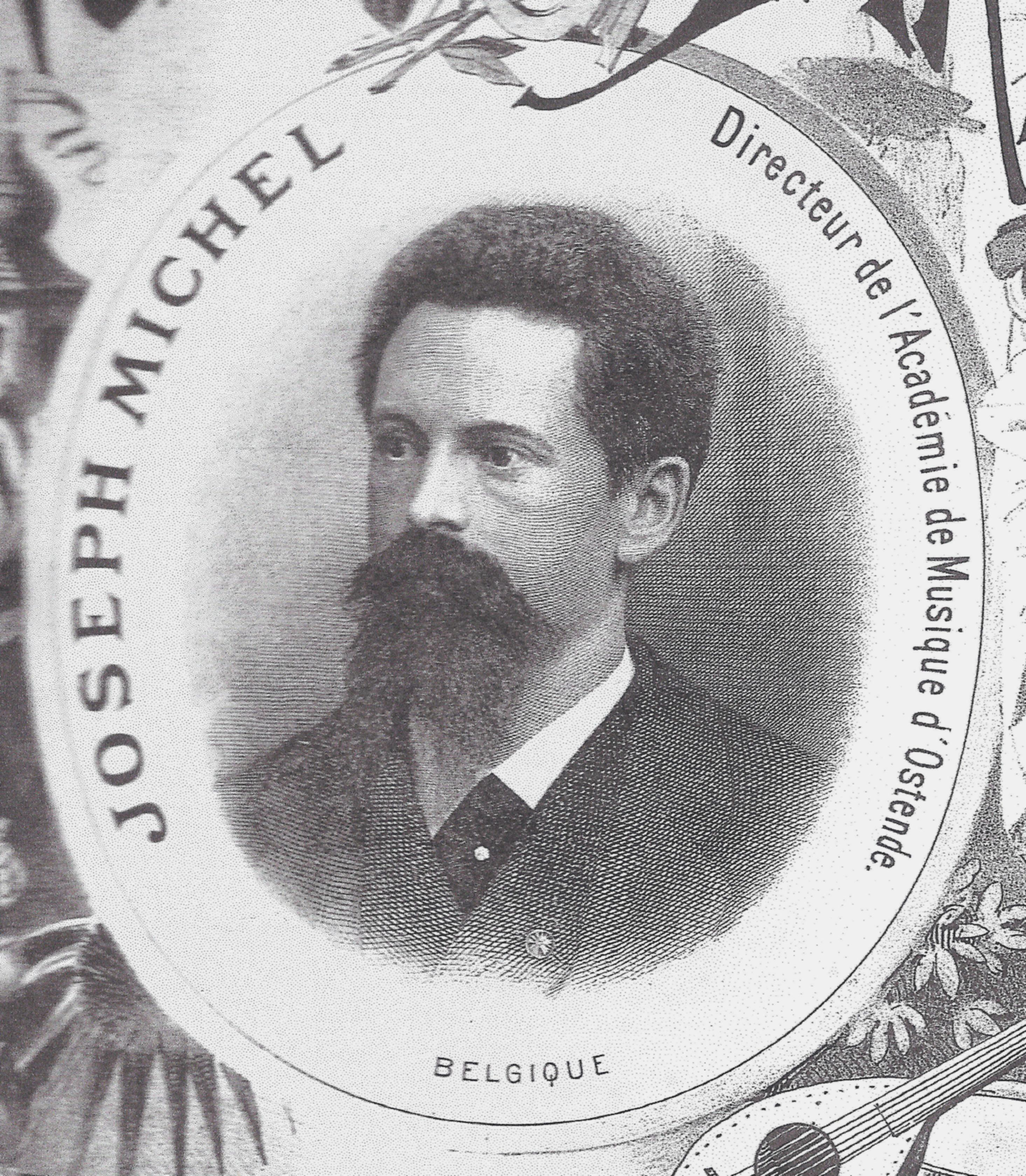 Engraved portrait of Belgian composer Joseph Michel (1847-1888)